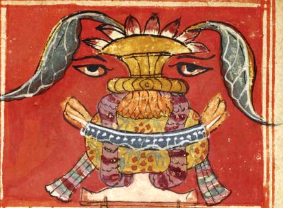 vase of 14 auspicious dreams in Jainism